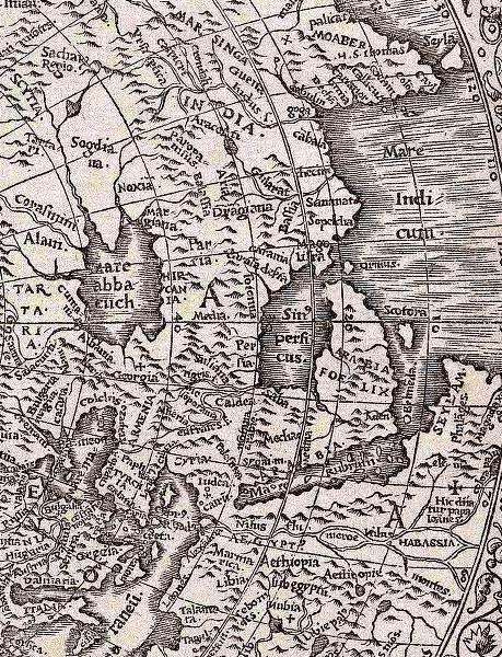 Detail: Nova et Integra Universi Orbis Descriptio, Map of 1531 denoting Sinus Persicus